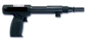 A second example of a powder actuated tool.